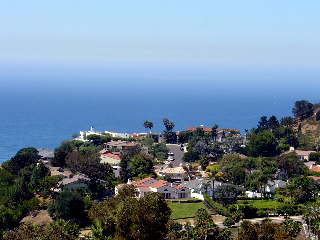 Houses adjacent to the Pepperdine University Malibu campus.